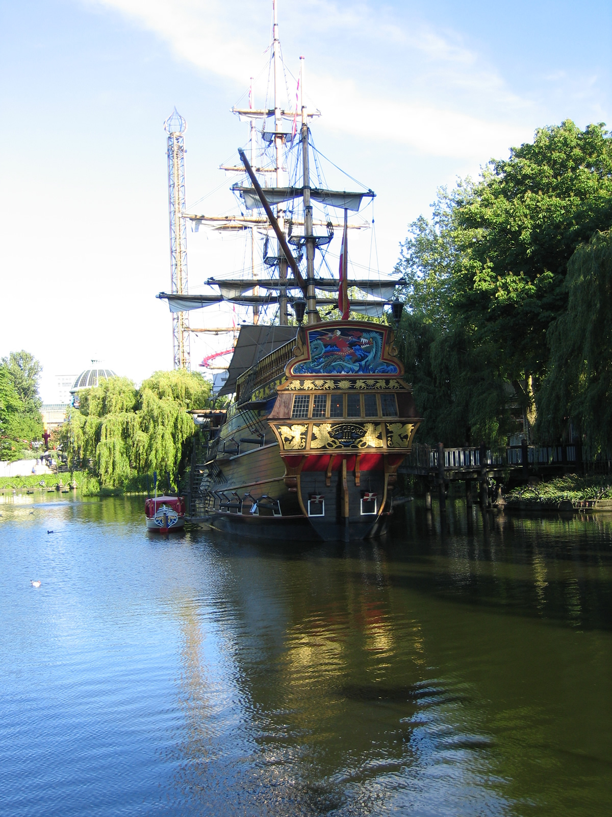 Frigate Sct. Georg III, a copy of a 17th-century frigate, in Copenhagen Tivoli, Denmark